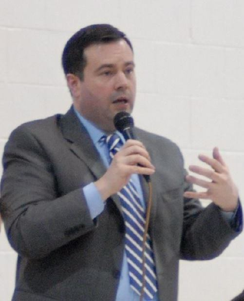 fields a question from a community member at the All Candidates Forum at McKenzie Lake Community Centre in Calgary's Southeast on January 14th, 2006.